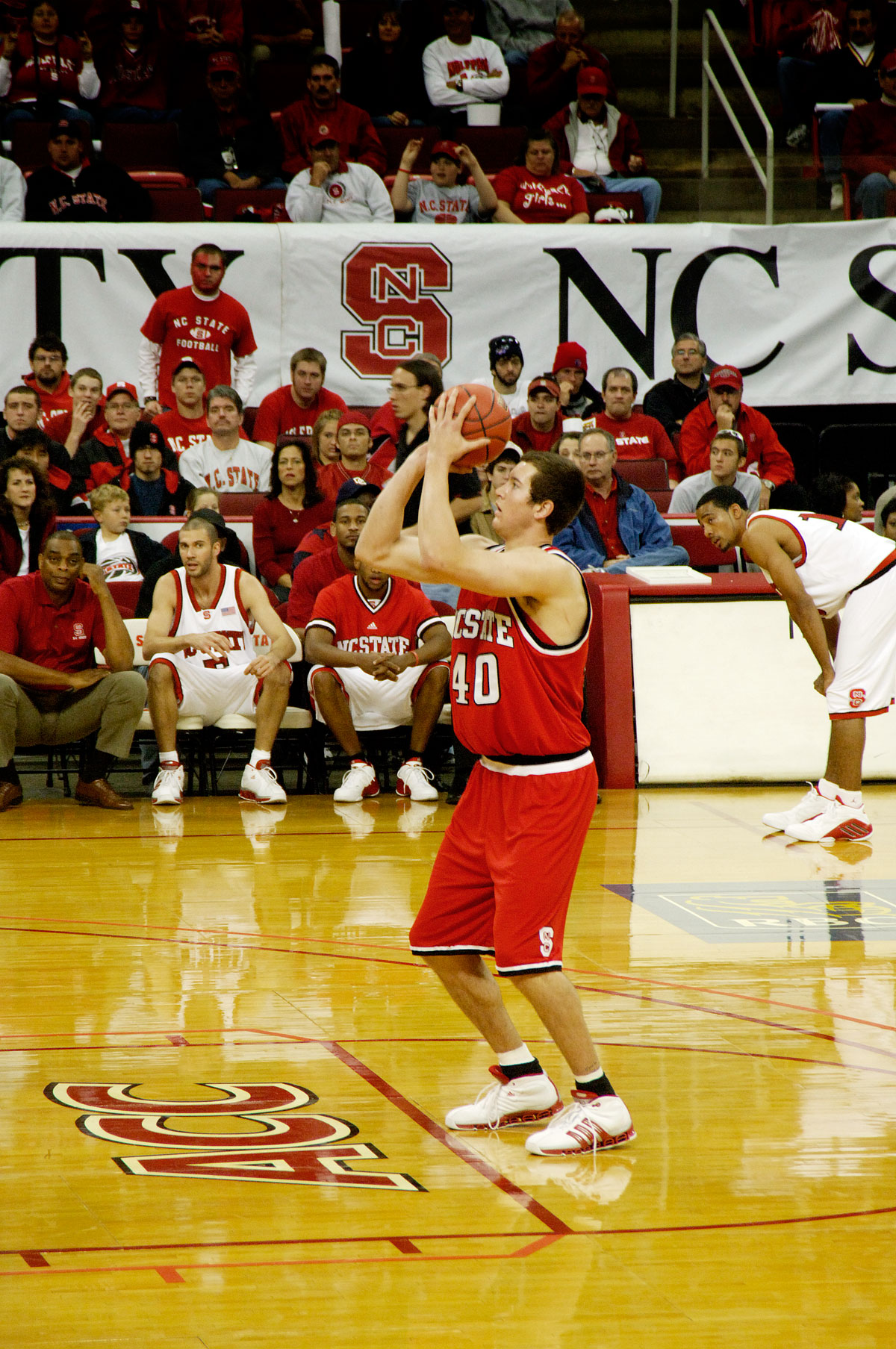 Andrew Brackman playing basketball for North Carolina State Wolfpack.